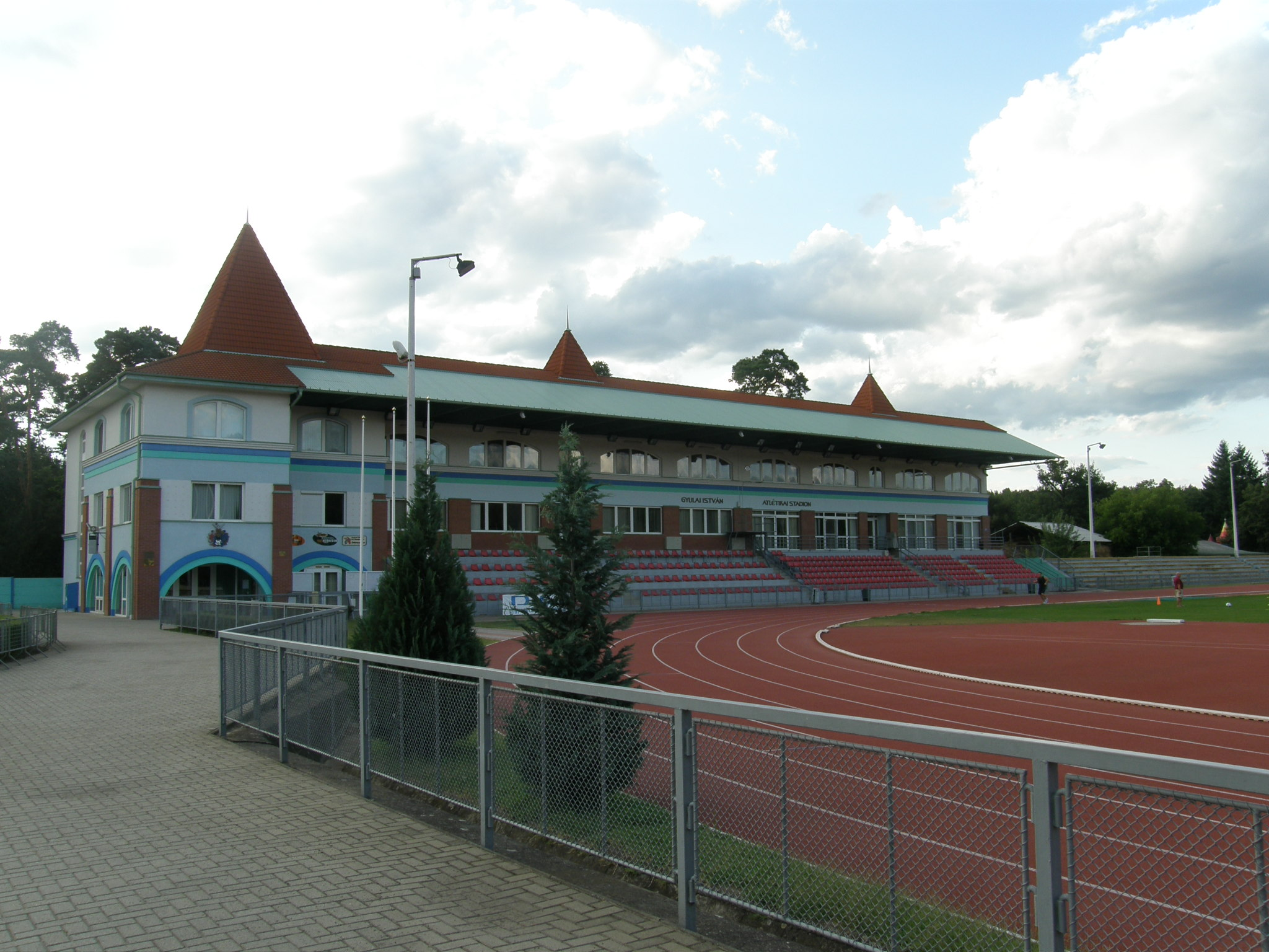 Gyulai István Atlétikai Stadion in Debrecen (Hungary)